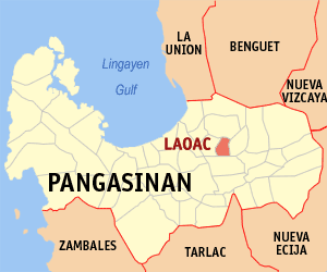 Map of Pangasinan showing the location of Laoac